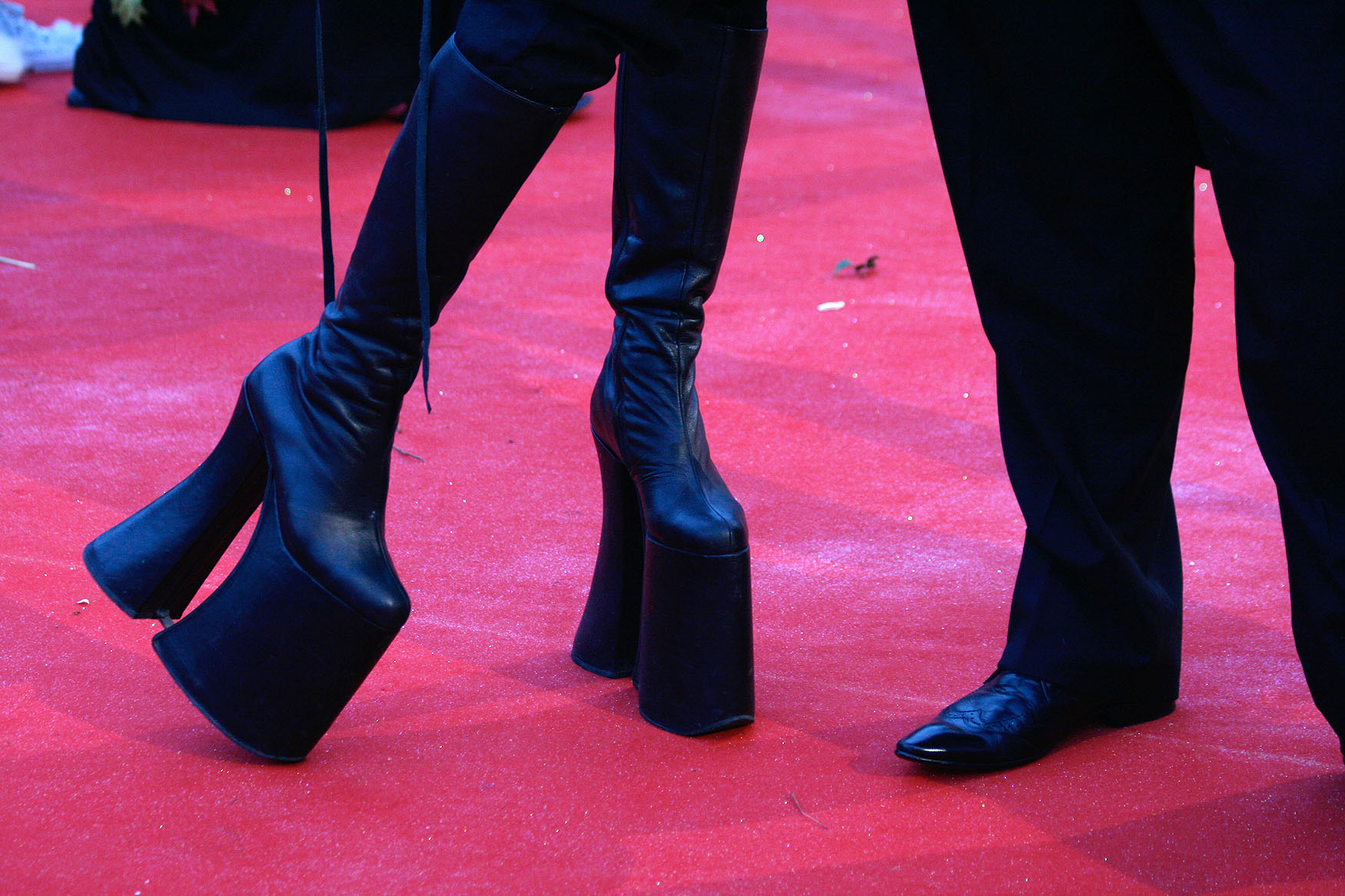 Guests on the red carpet of the Life Ball 2010.